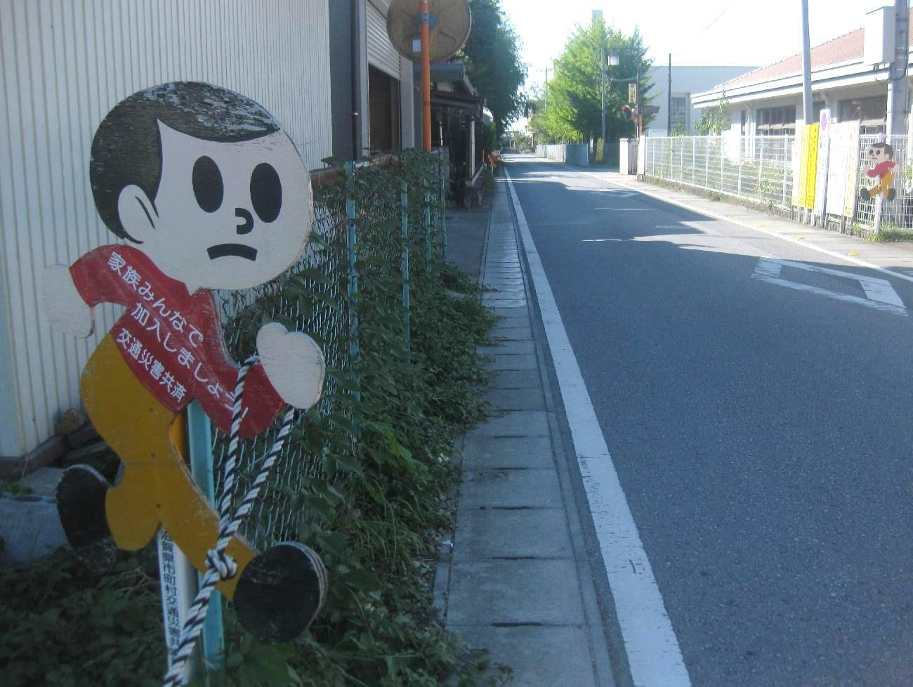 Road safety billboards in Toyosato, Shiga